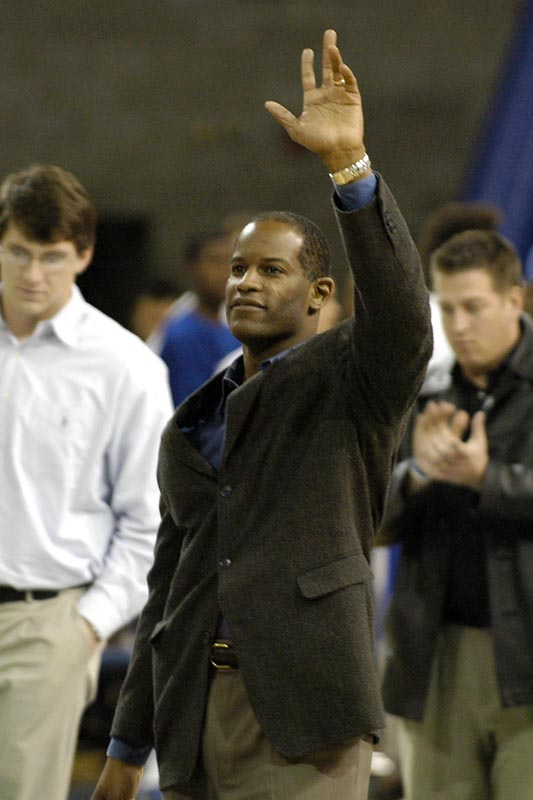 Turner Gill is introduced during a UB Men's Basketball game against Central Michigan on January 21st 2006.